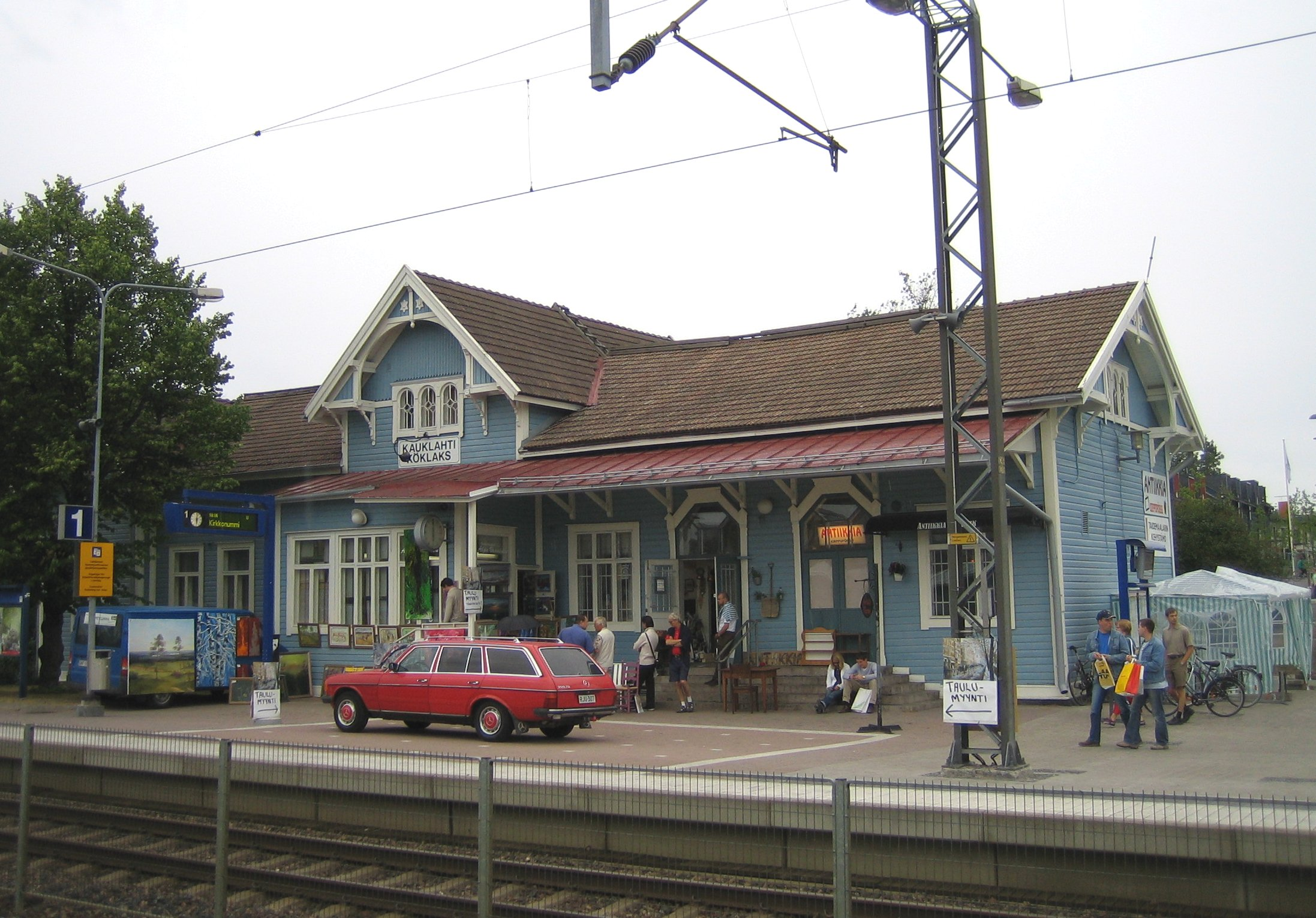 Kauklahti railway station, Espoo, Finland